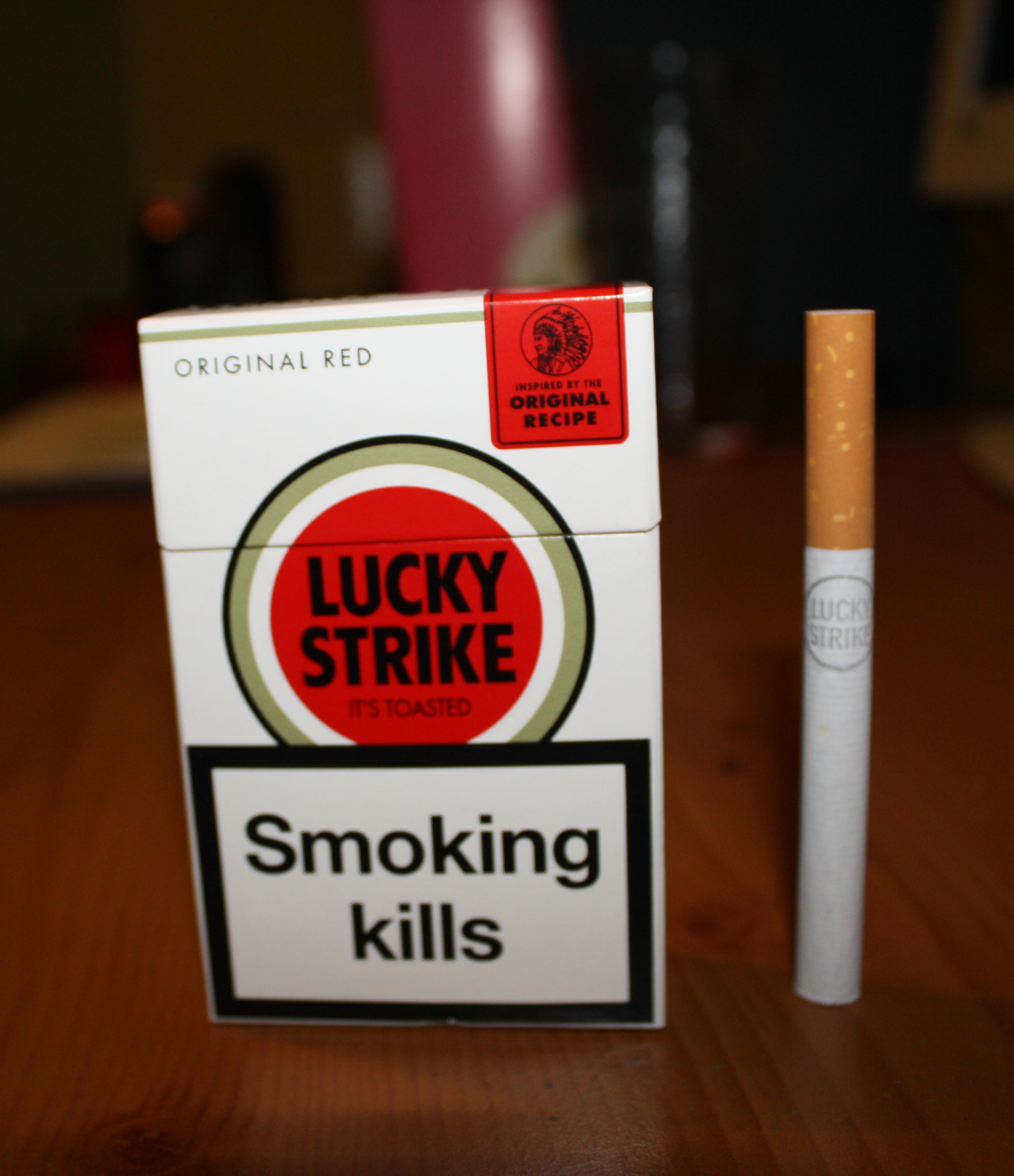 High quality photograph of Lucky Strike Red Original box for the UK and A Cigarette